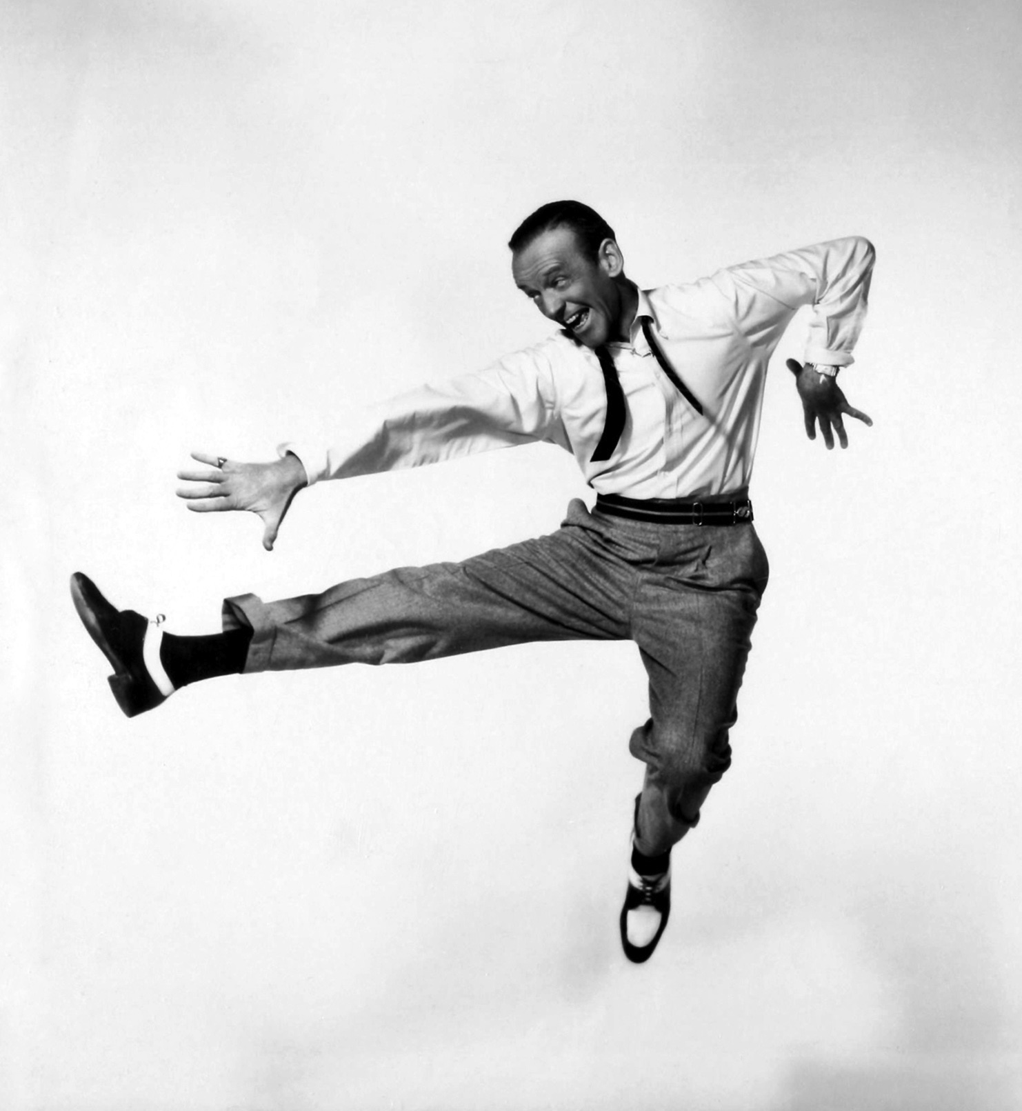 Studio publicity still for film Daddy Long Legs.